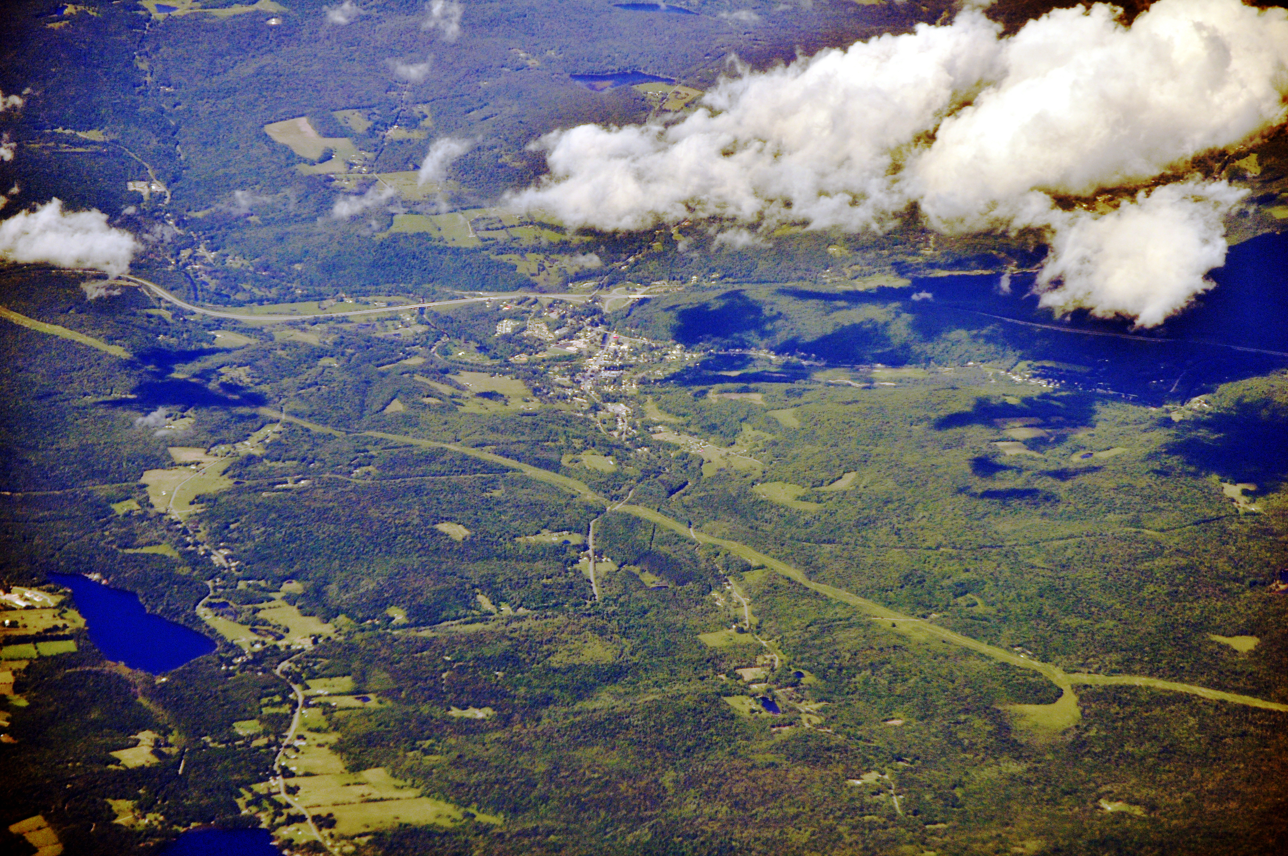 Aerial view of Livingston Manor, Sullivan County, New York from the southwest.